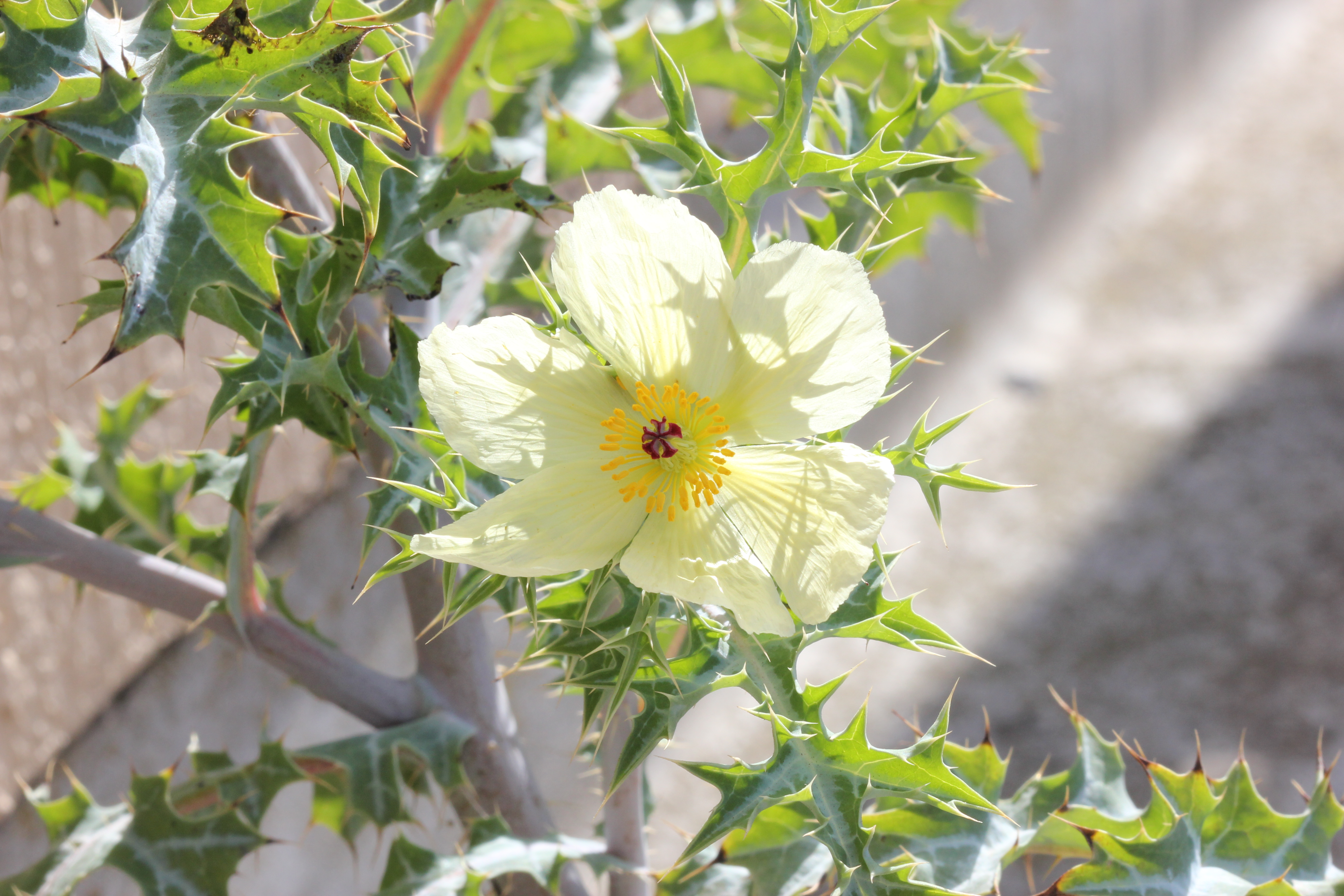 Argemone ochroleuca Flower with its superior ovary shows sharp bristles by the time the flower opens